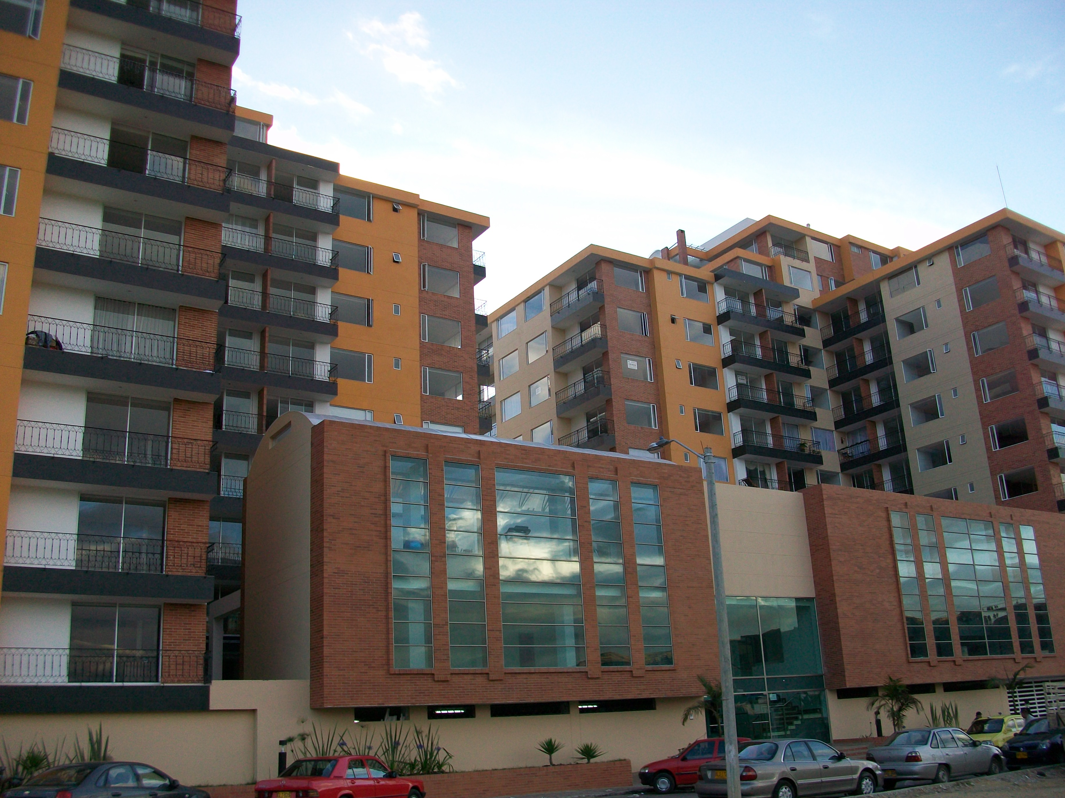 One of the new building in Sector Unicentro - Barrio La Esmeralda Tunja D.H.C